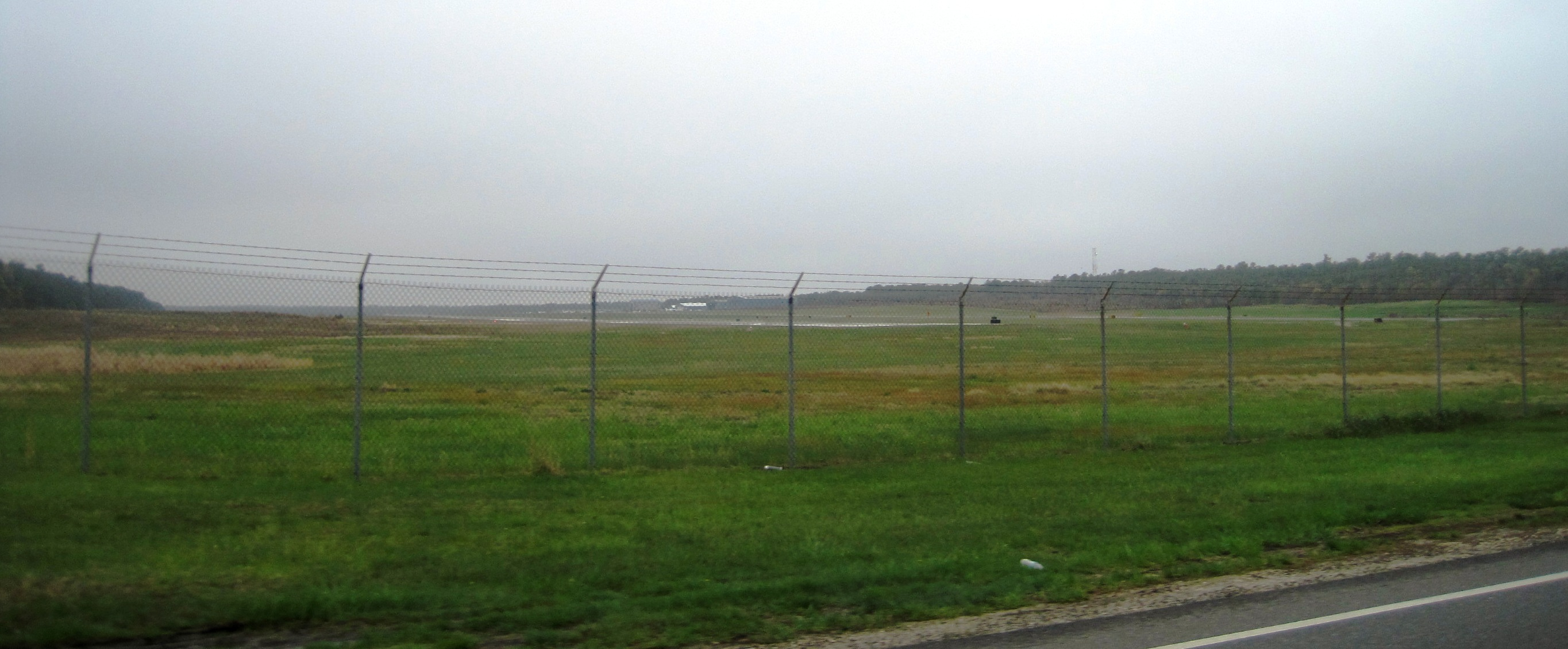 Photo showing the Ocean County Airport (also known as the Robert J. Miller Air Park) as seen from County Route 530 in Berkeley Township, New Jersey.